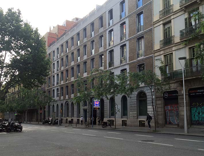 Old building in carrer Trafalgar 42-44, Barcelona, refurbished to lofts housing